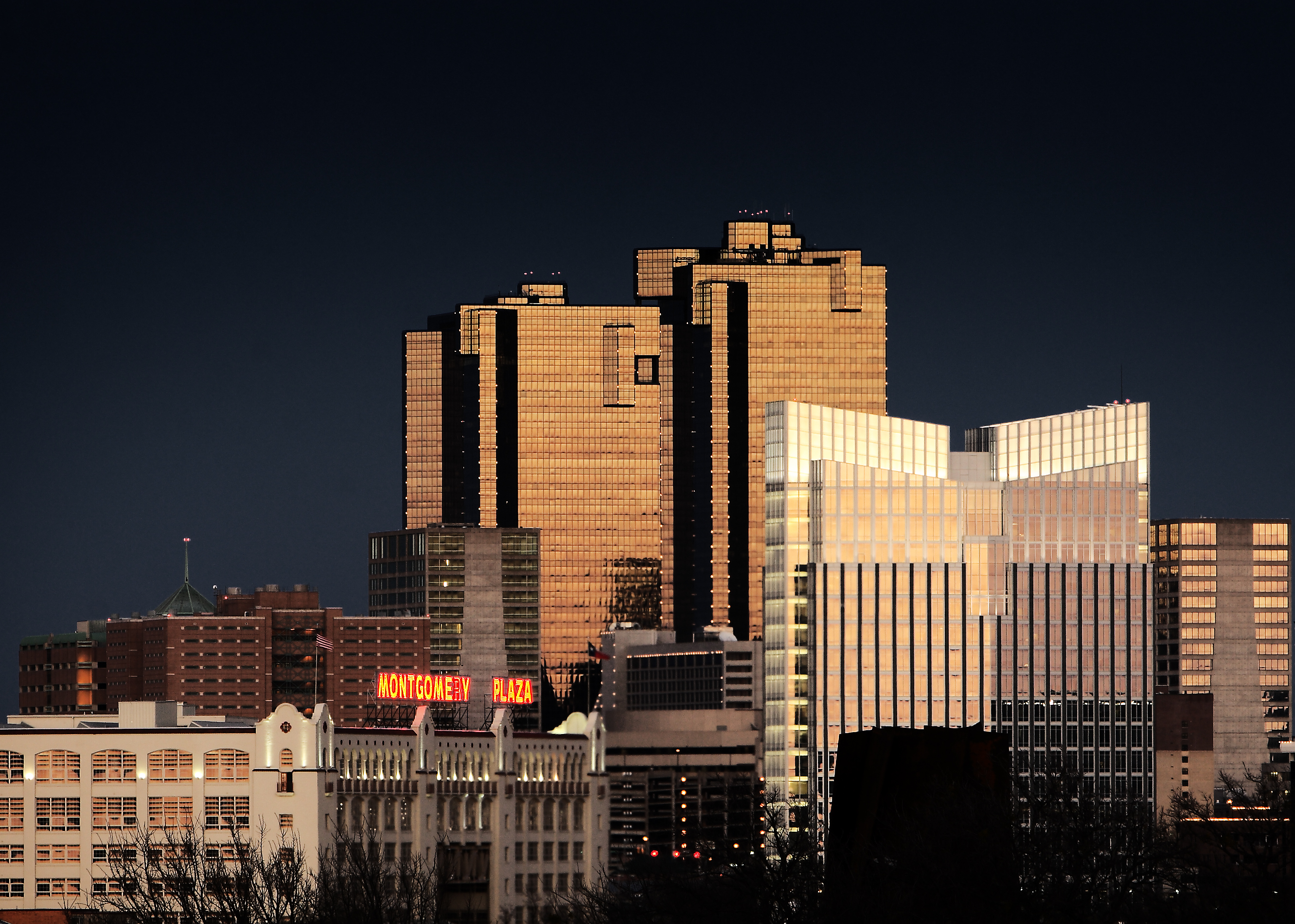 Fort Worth, Texas. Taken from the Amon Carter Museum looking east.